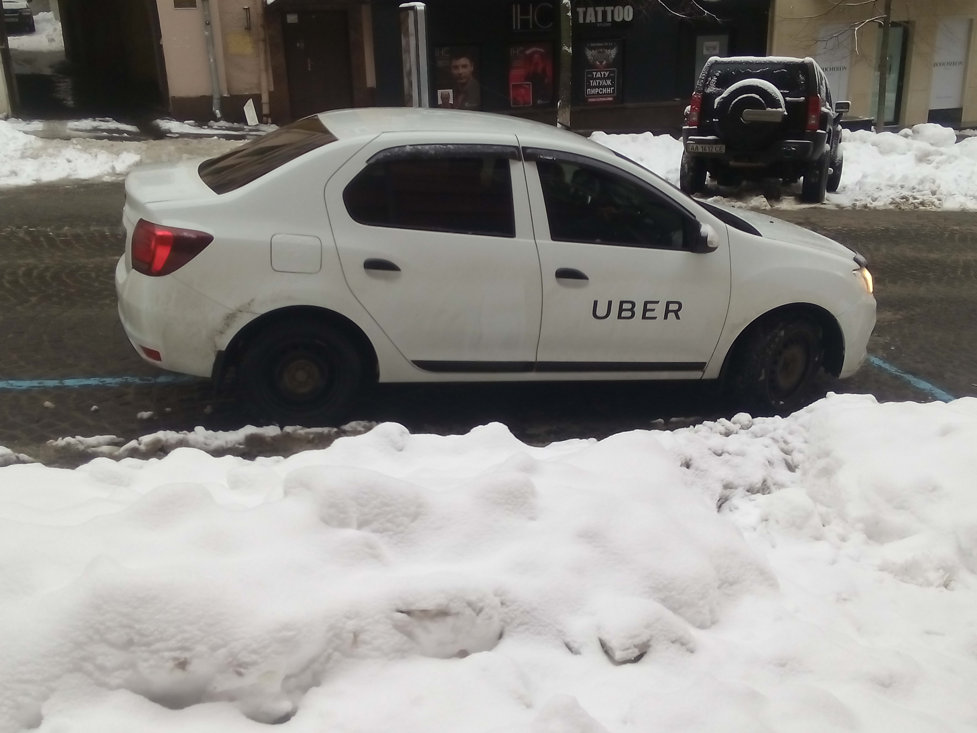 Uber car in Kyiv